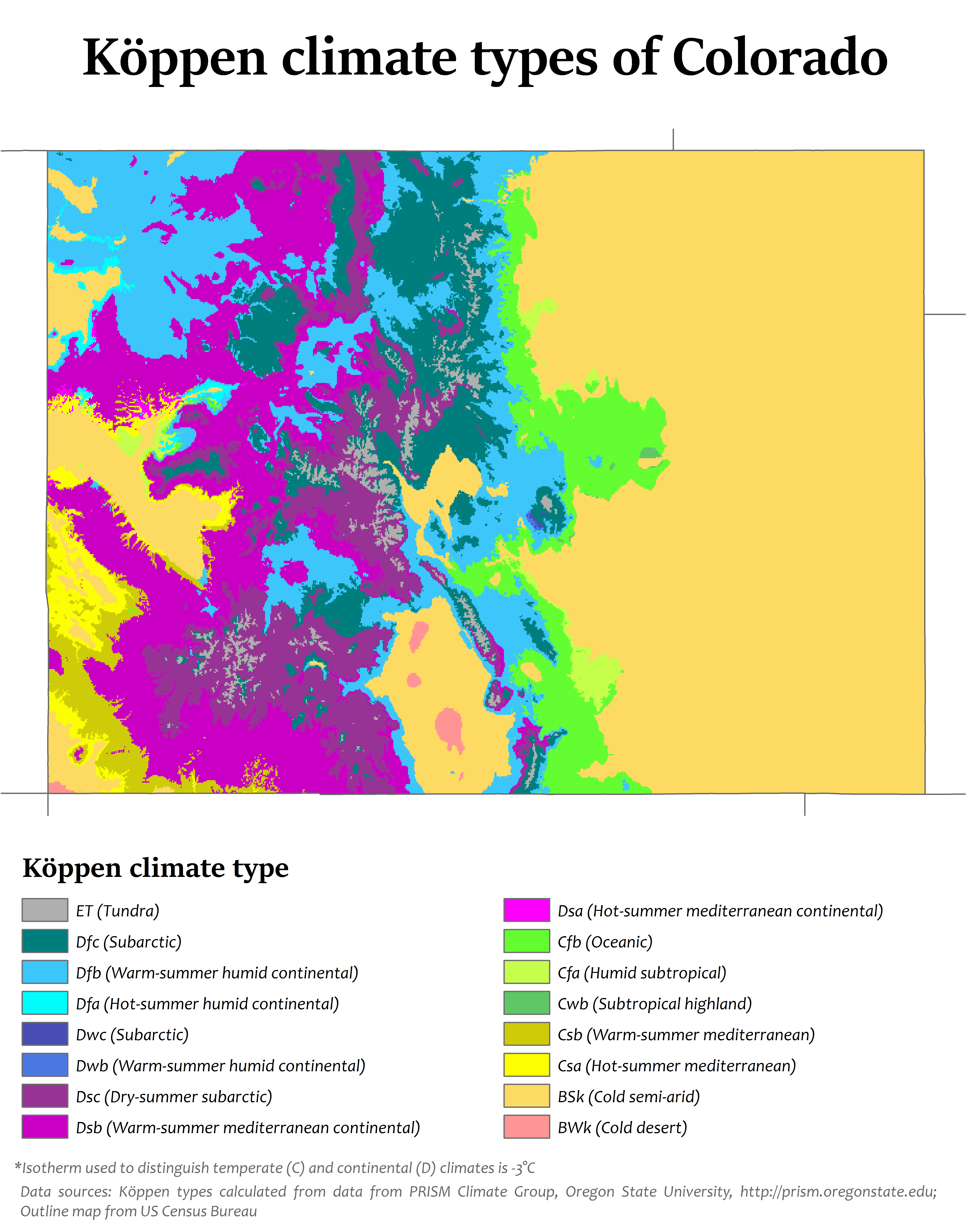 Köppen climate types of Colorado